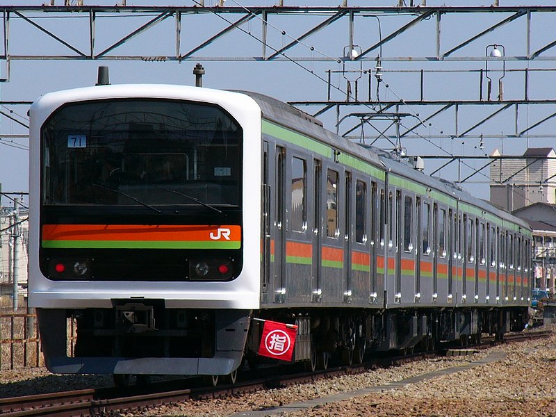 JR East 209-3100 series EMU set 71 at Haijima Station in Akishima, Tokyo, Japan